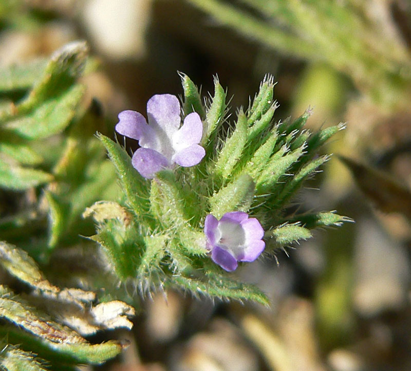 Verbena bracteata alongside the Kyle Canyon Road about 4 km east of the junction with 158, Kyle Canyon, Spring Mountains, southern Nevada (elev. about 1800 m)